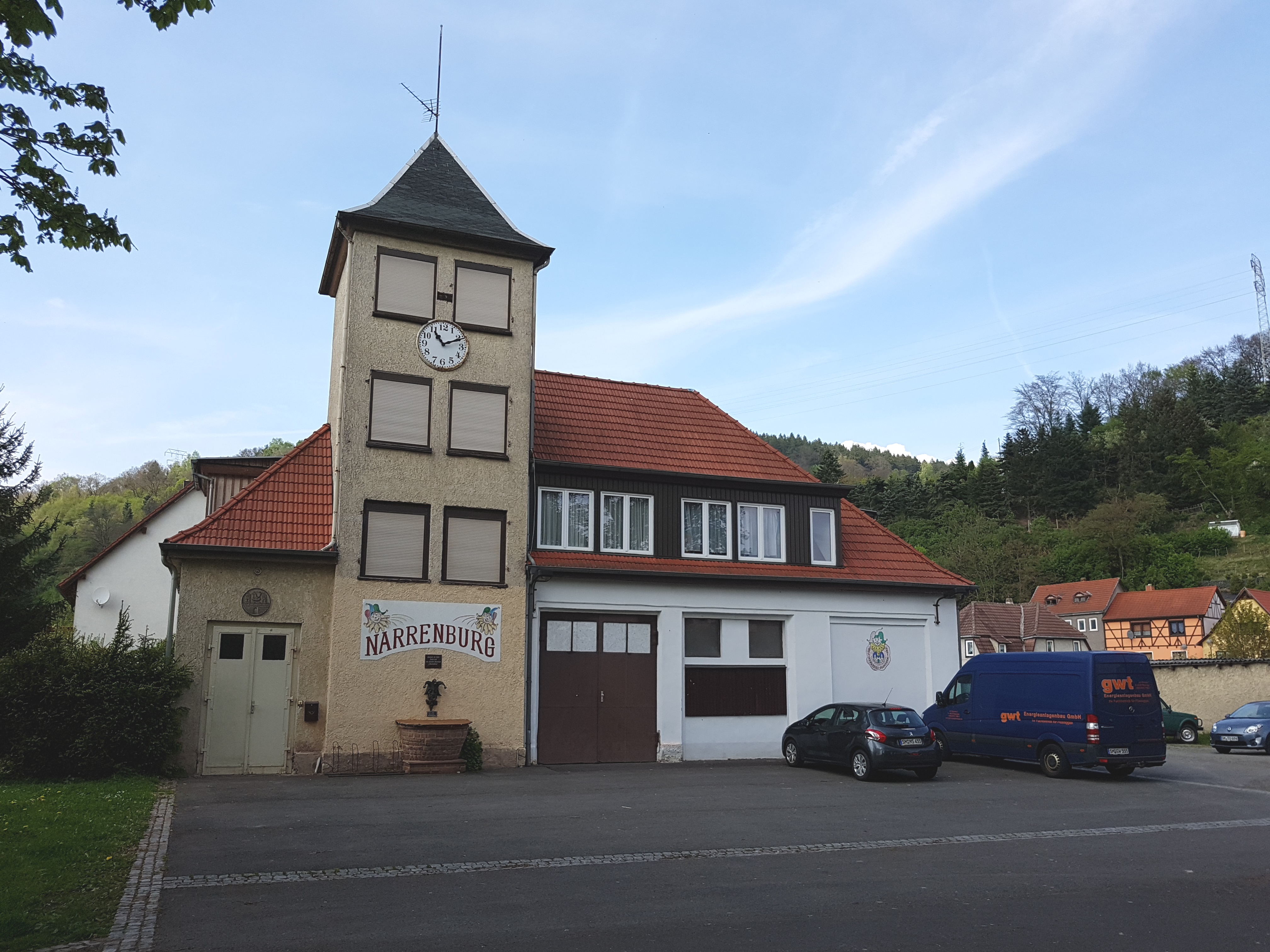 The center of the Carnival in Wasungen, the Narrenburg